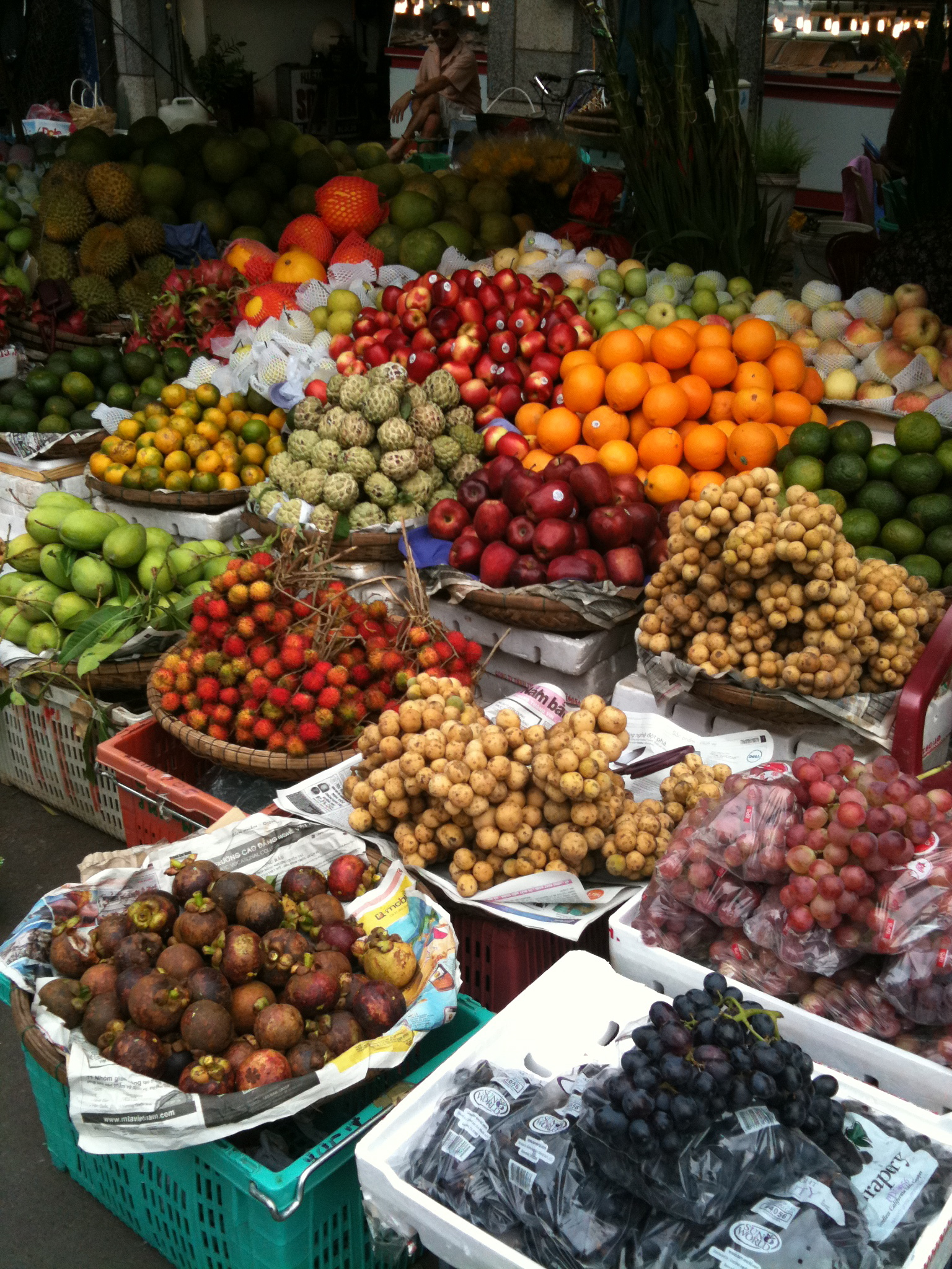 A variety of fruits for sale on the street across from Han Market, Da Nang, Vietnam.